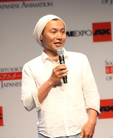 Masaaki Yuasa at Anime Expo 2013